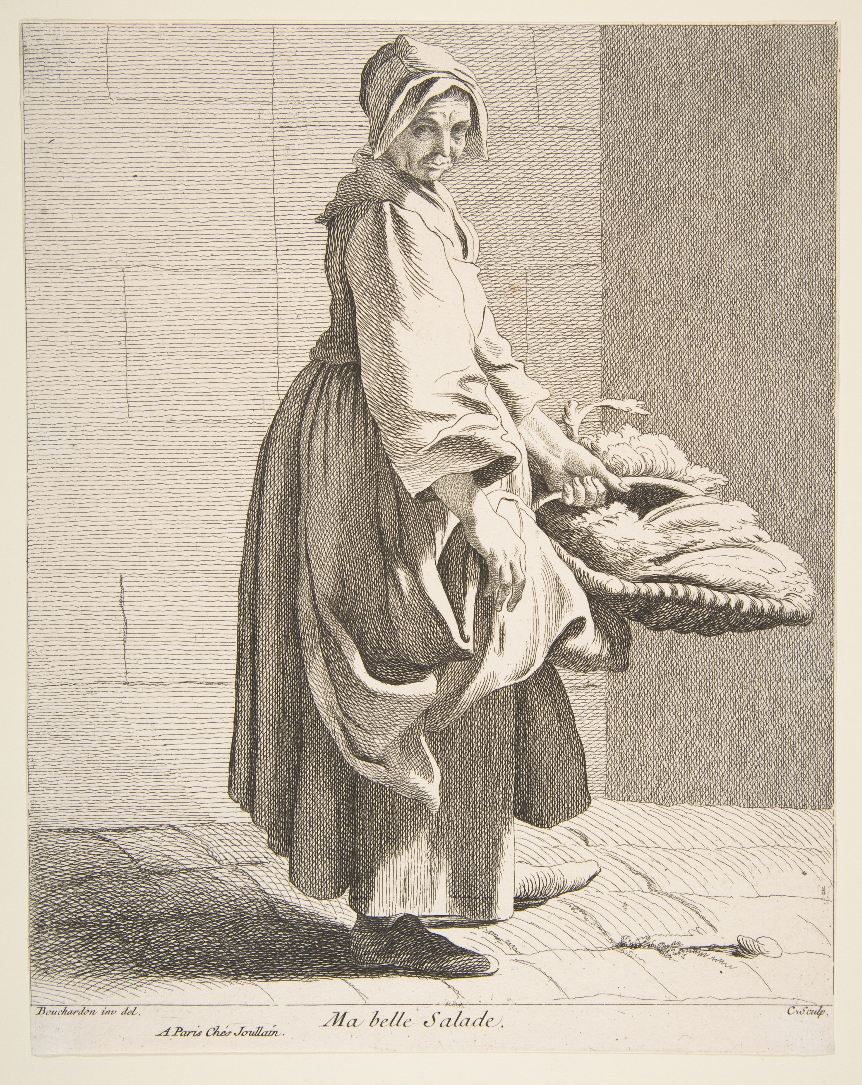 Lettuce Seller. Woman selling salads, which she carries in a basket; she stands turned to the right, looking at the viewer.